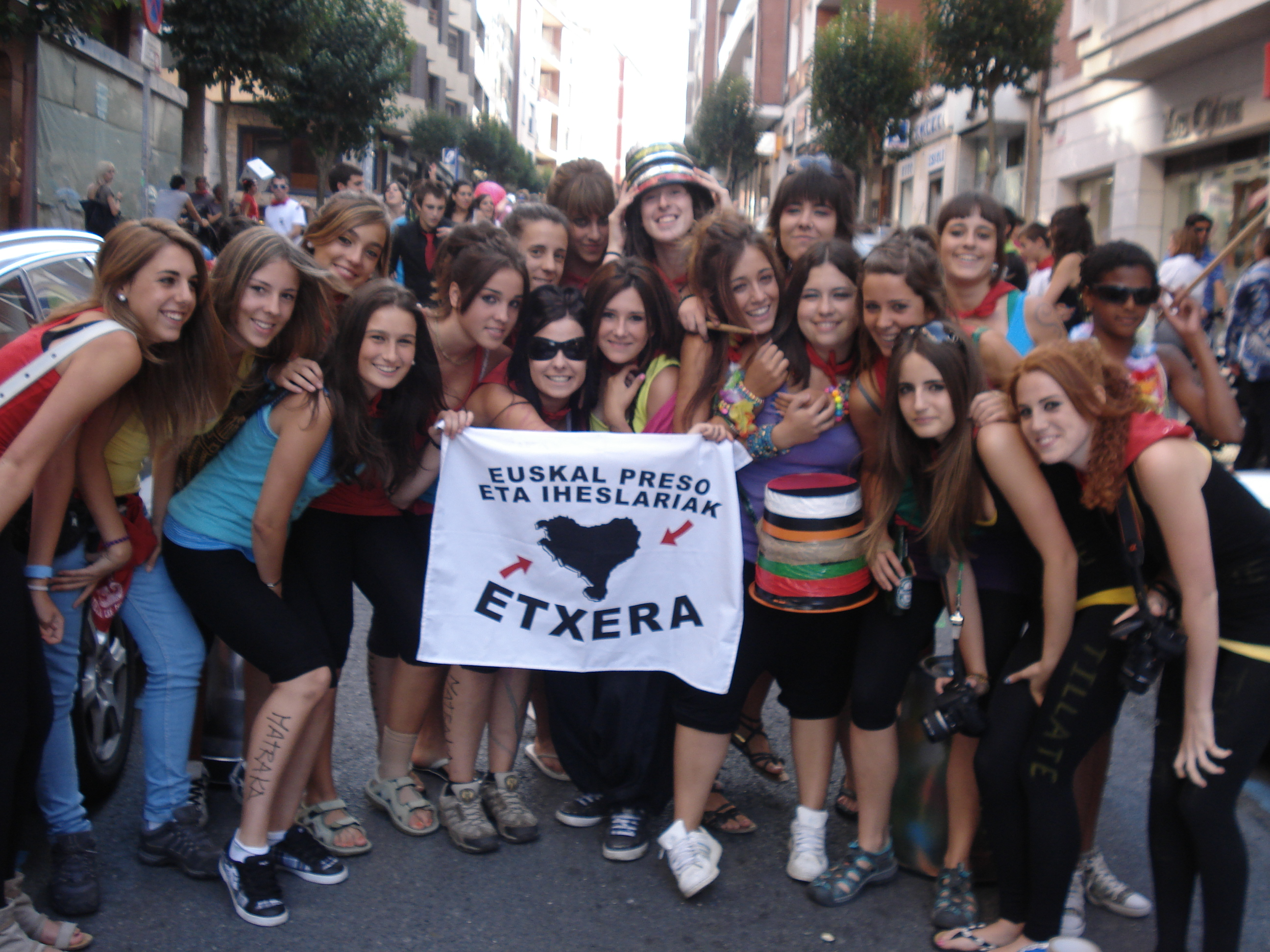 Banner for the basque prisoners in the festival of Algorta, Biscay.